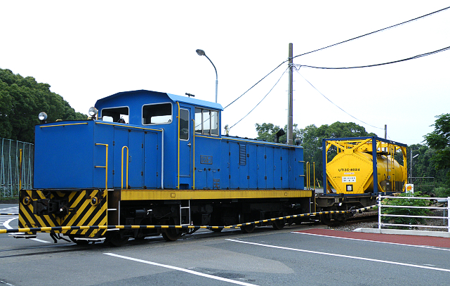 Freight car pulled by 35t switcher D35-1 on the ASAHI KASEI CHEMICALS CORPORATION.